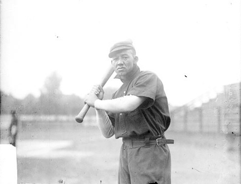 Informal three-quarter length portrait of African American baseball player Payne of the Leland Giants baseball team, holding a baseball bat, standing in a batting stance on a baseball field in Chicago, Illinois.